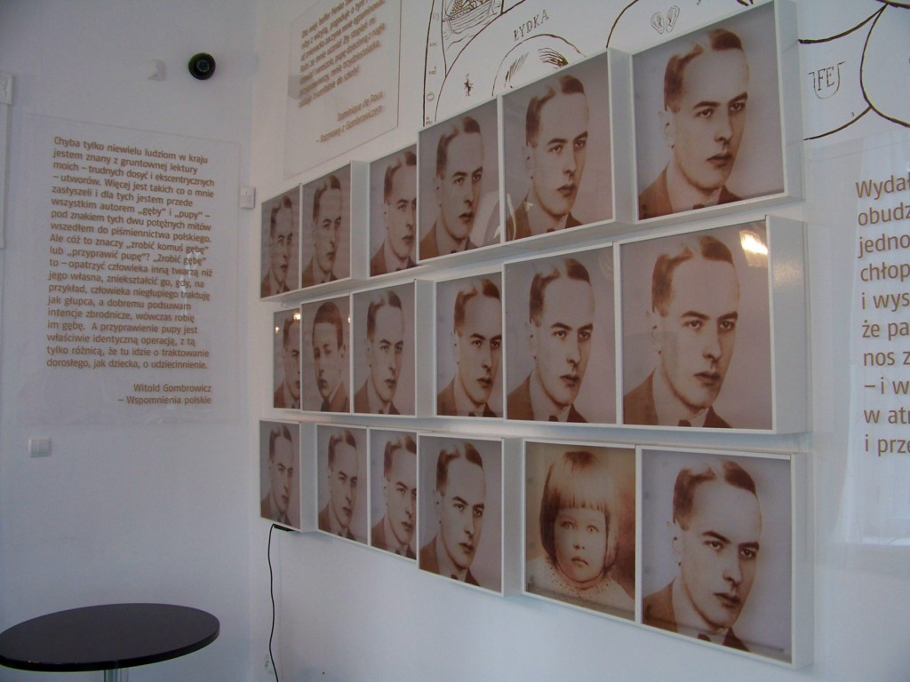 MUSEUM WITOLD GOMBROWICZ in Wsola, branch of the Museum of Literature in Warsaw